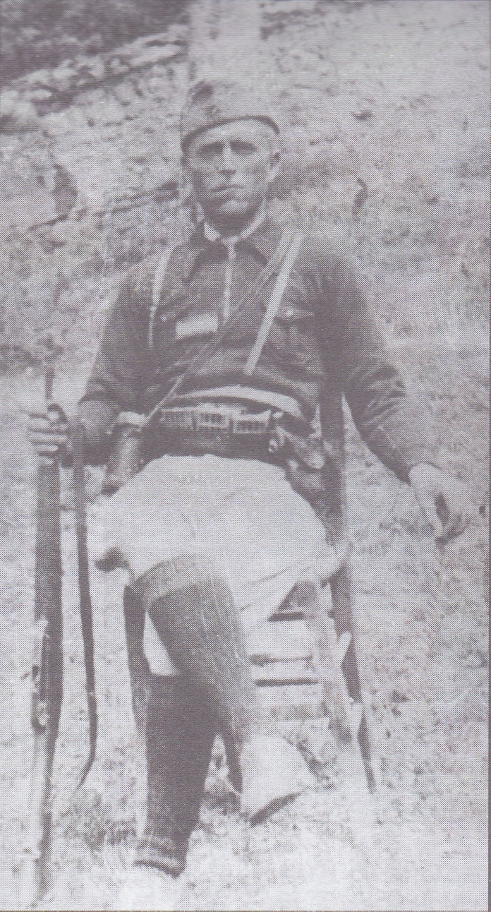 Vasil Manolov Starichani